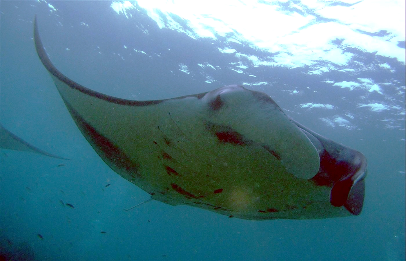 Photo of a Manta Ray taken by me at Rasfari North Island, Male Atoll, Maldives